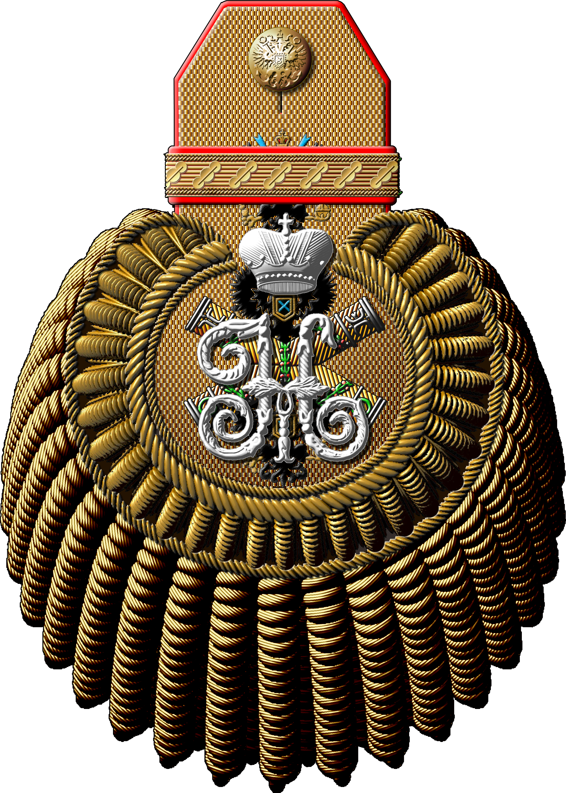 Reconstruction epaulettes General-Admiral, General-adjutant of His Imperial Highness Grand Duke Konstantin Nikolaevich (1827-1892) after 1855 when the Suite form and the form of Guards.